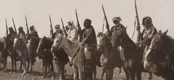 The 1916-1918 Arab Revolt fighters